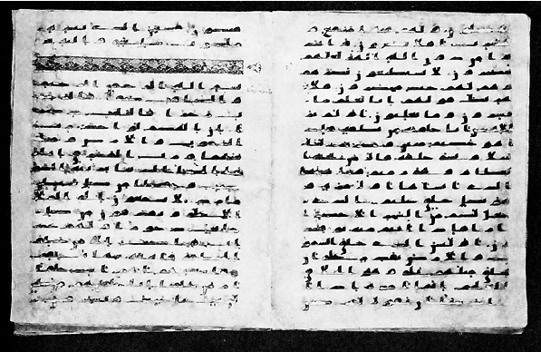 Folios contains Surahs Ya-Sin, 72-83 and Al-Saffat, 1-14. Script: Mashq (one of the earliest dated Qur'anic manuscripts and written on vellum. The vowels are indicated by red dots and diacritical by short strokes. No aya markers and no surah headings). Location: Egyptian National Library, Cairo, Egypt.